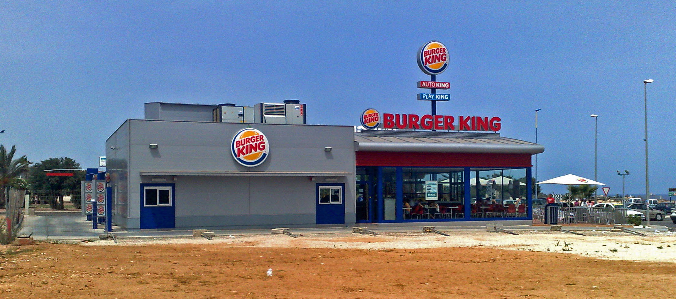 A Burger King restaurant with Drive-thru, Playground and terrasse in Orihuela Costa, Spain.